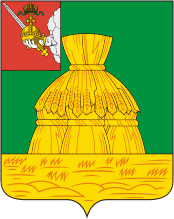 Nikolsk (Vologda oblast), coat of arms